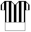 Shirt Juventus